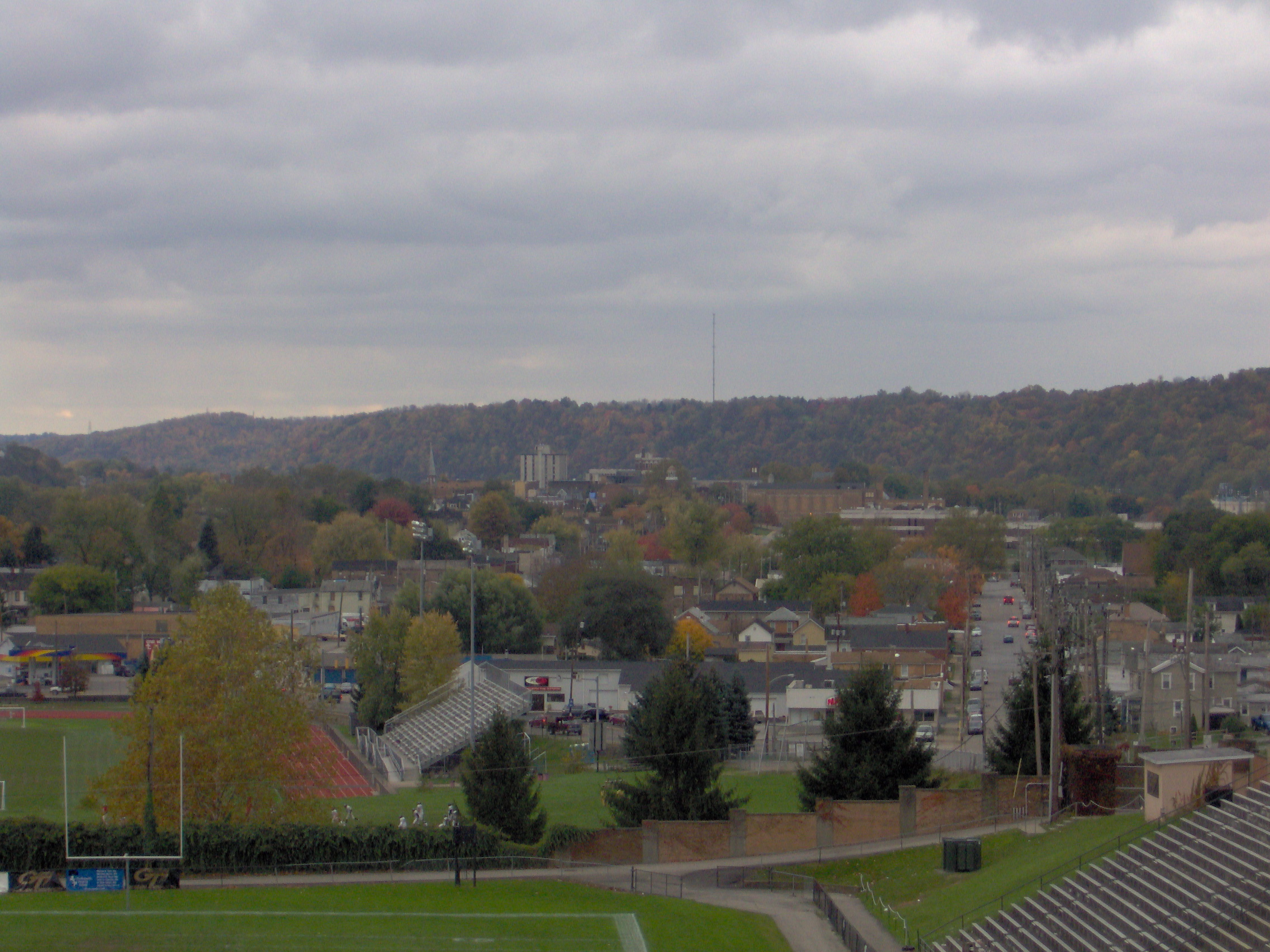 View of Beaver Falls, Pennsylvania, United States, from Northwood Hall at Geneva College.